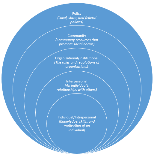 See title.